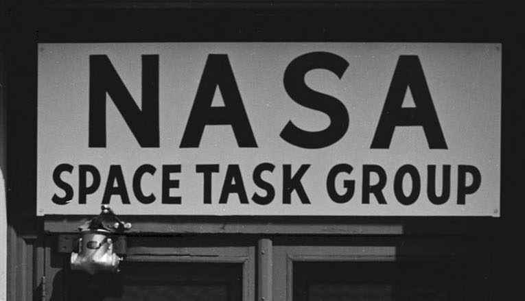 S61-02455 (19 June 1961) --- The NASA Space Task Group building's sign at the Langley Space Flight Center.